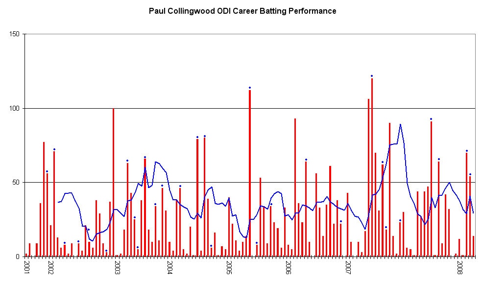 This graph details the One-day International cricket performance of Paul Collingwood. It was created by Raven4x4x. The red bars indicate the player's one-day international innings, while the blue line shows the average of the ten most recent innings at that point. Note that this average cannot be calculated for the first nine innings. The blue dots indicate innings in which Collingwood finished not-out. This graph was generated with Microsoft Excel 2002, using data from Cricinfo [1] and Howstat [2]. The information in this graph is current as of 30 March 2008.